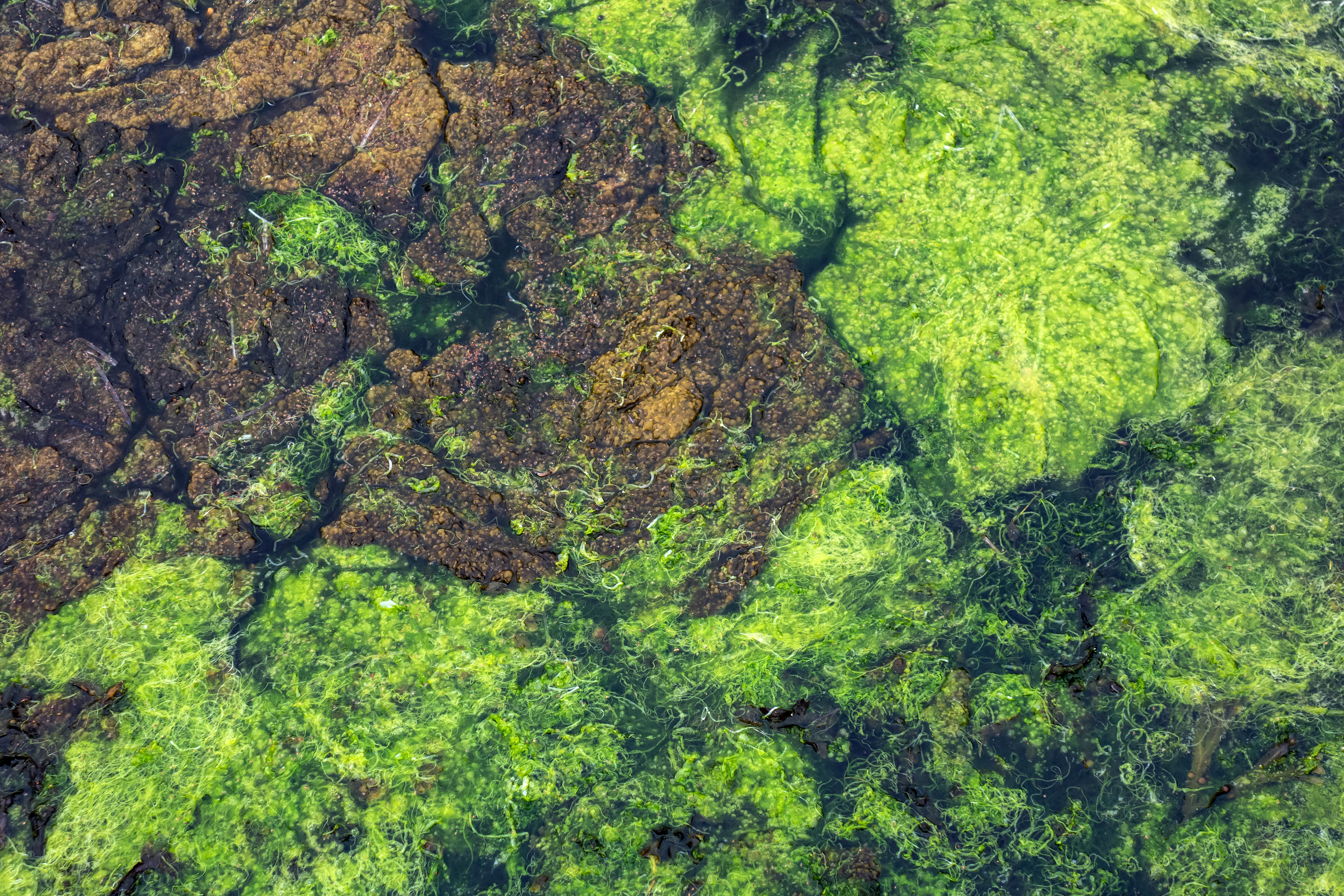 Marine algae, mostly old brown (Pylaiella littoralis) and new green gutweed (Ulva intestinalis), in Brofjorden at Loddebo, Lysekil Municipality, Sweden. The surface is dotted with birch seeds.